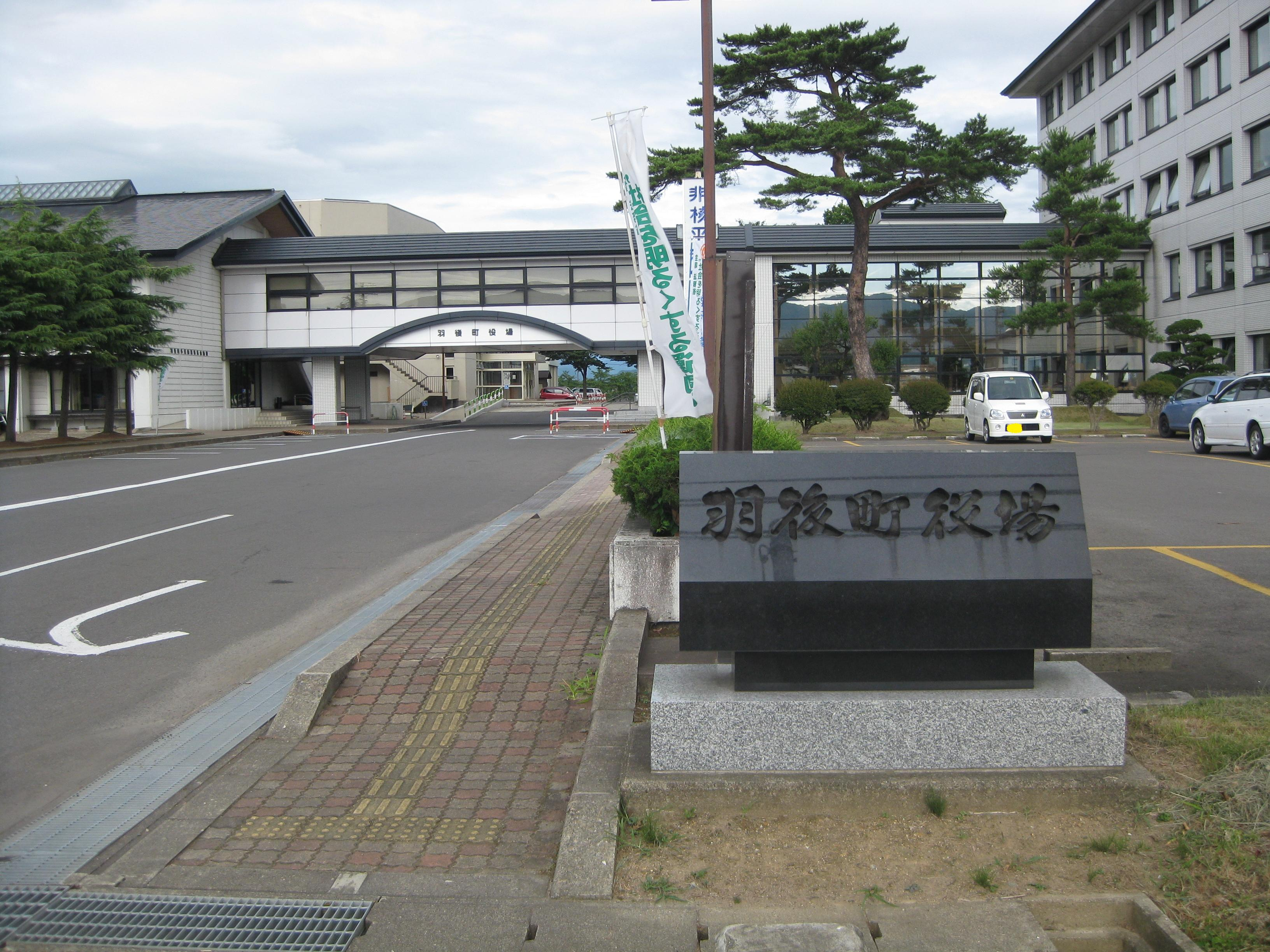 Ugo Town Office.